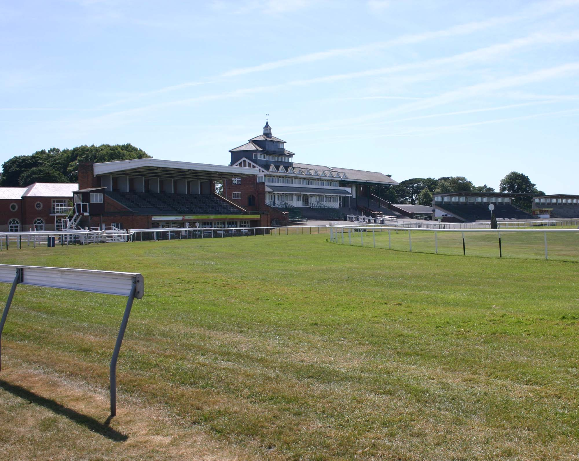 The Grandstand, Thirsk Racecourse